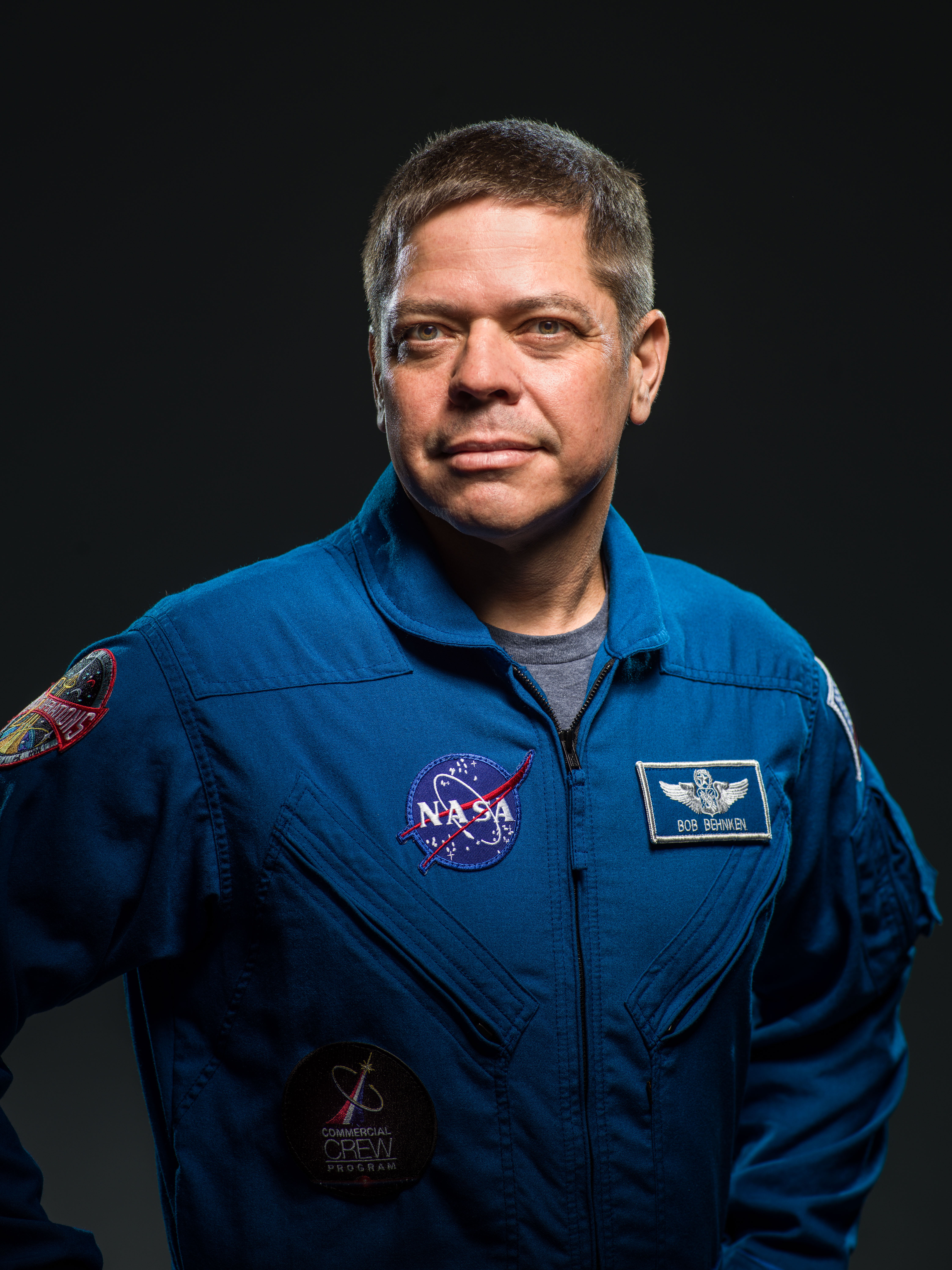 NASA Astronaut Bob Behnken has been assigned to the first flight of SpaceX’s Crew Dragon.